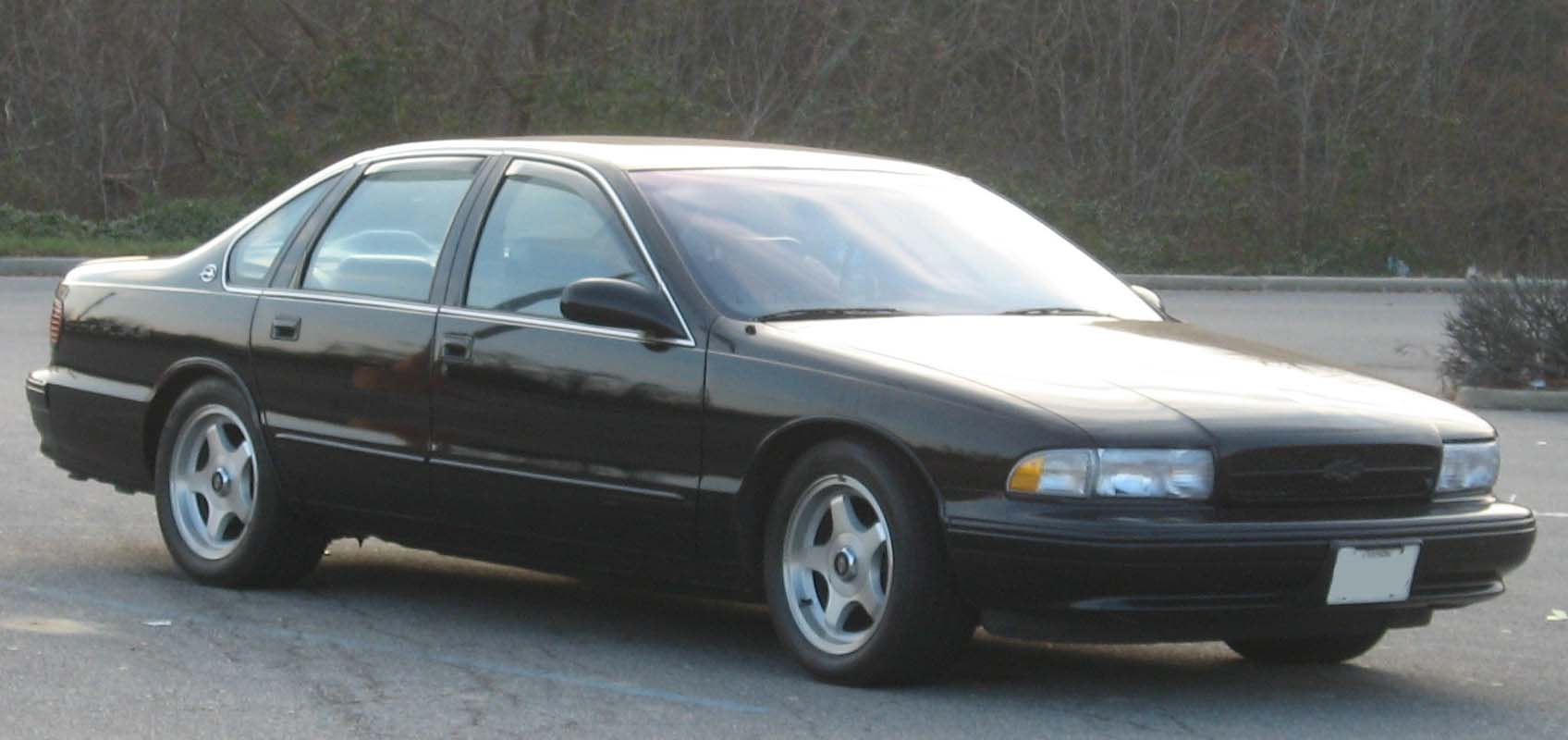 1994-1996 Chevrolet Impala SS photographed in Waldorf, Maryland, USA.